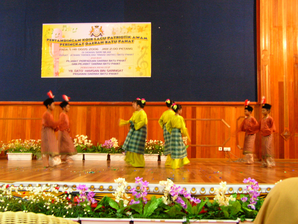 Young schoolchildren performing the Zapin dance.